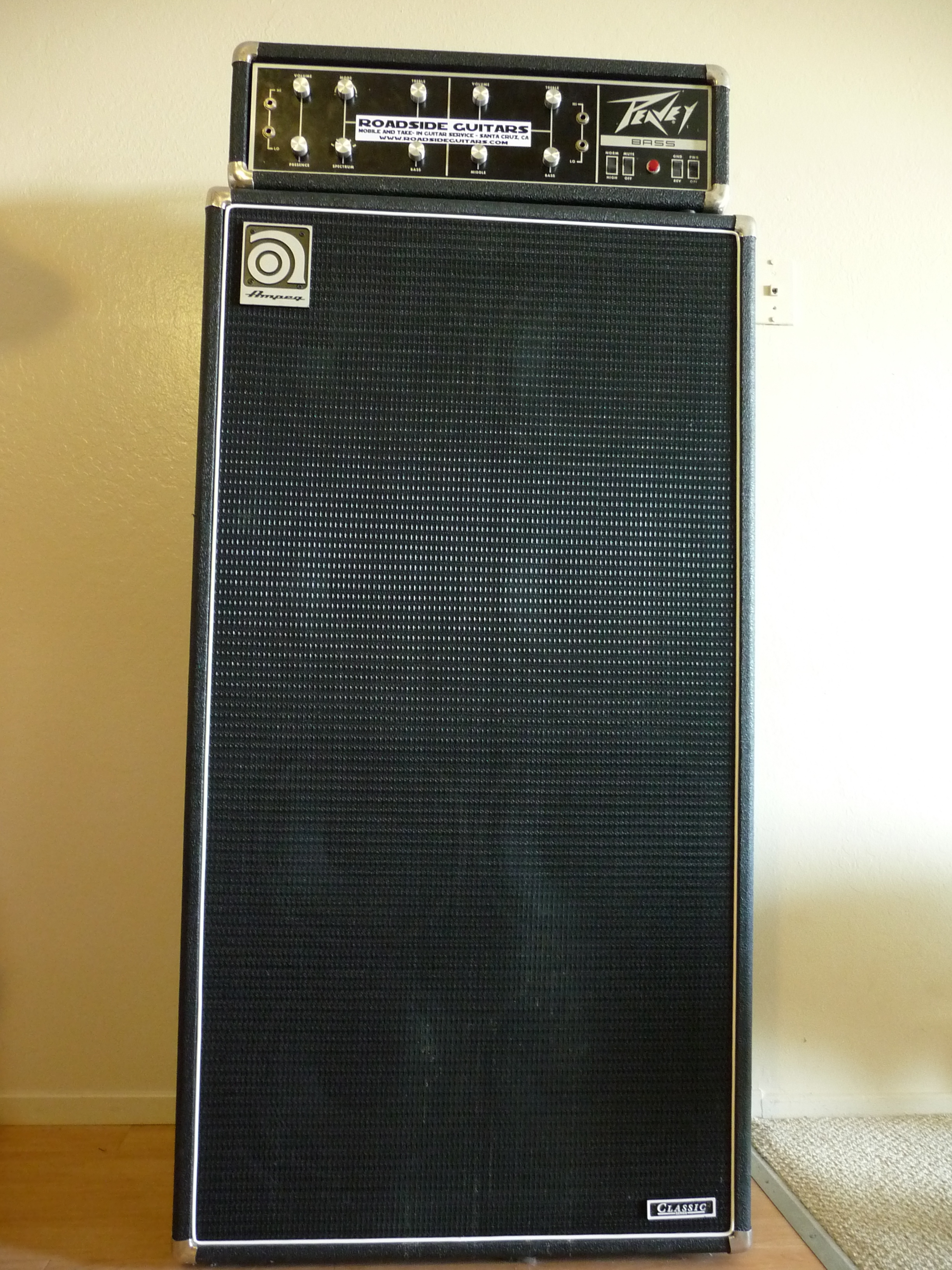 Ben's Bass Rig ....R.I.P....easy come easy go. Got a great deal on the 8x10, but had to let it go. Still have the Peavey, always will, indestructable. Peavey Bass Amp Head Ampeg SVT-810 Classic series Speaker Cabinet